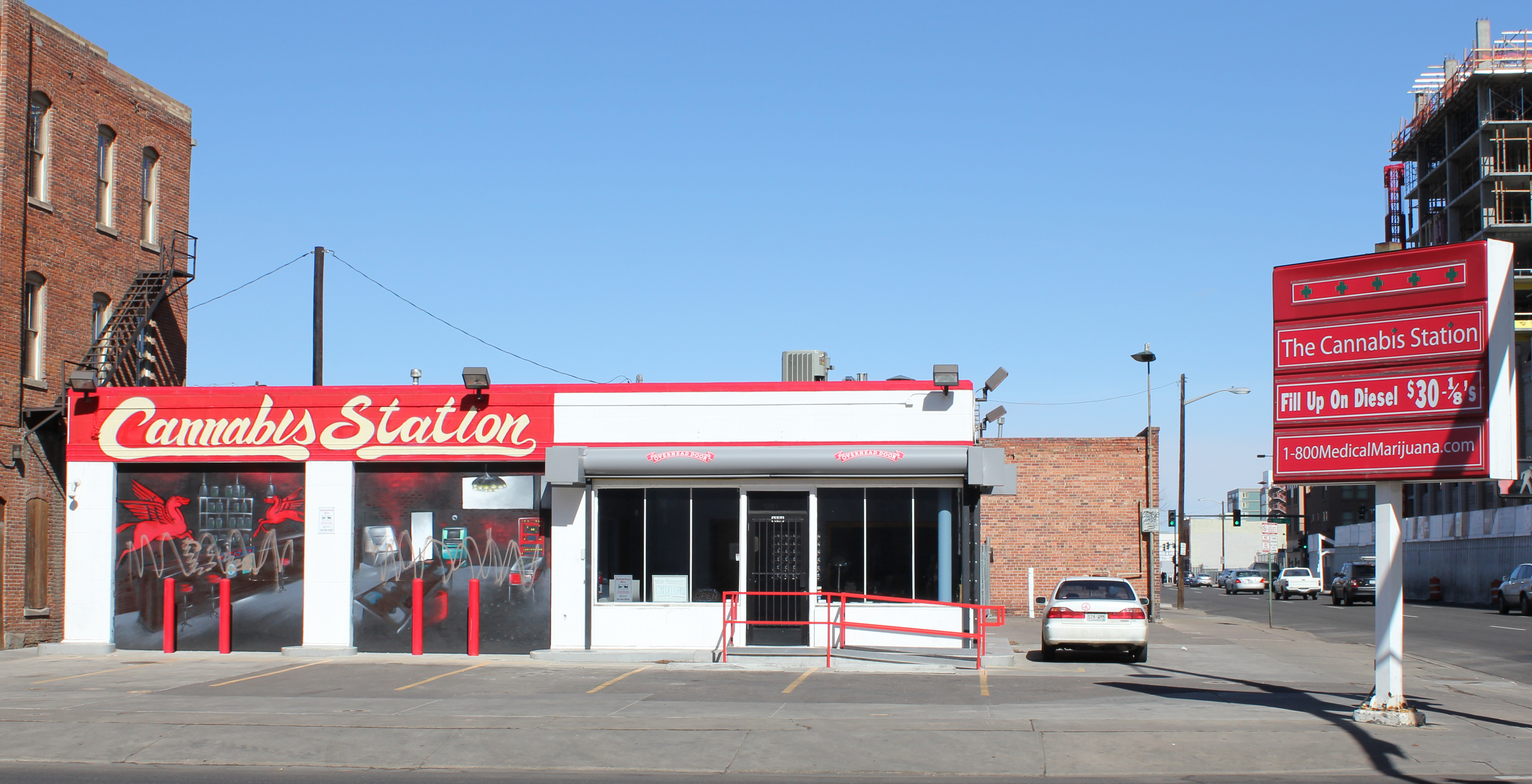 Cannabis Station, a medical marijuana dispensary located at the intersection of Lawrence Street and 20th Avenue in Denver, Colorado. The shop occupies a former gas station. Part of the text on the sign says, "Fill Up on Diesel $30 ⅛'s."